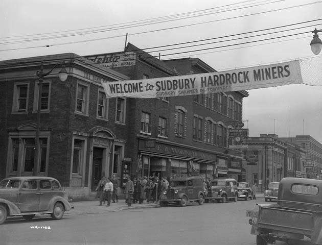 Banner in Sudbury, Ontario, Canada, circa 5 October, 1942, welcoming hardrock miners.